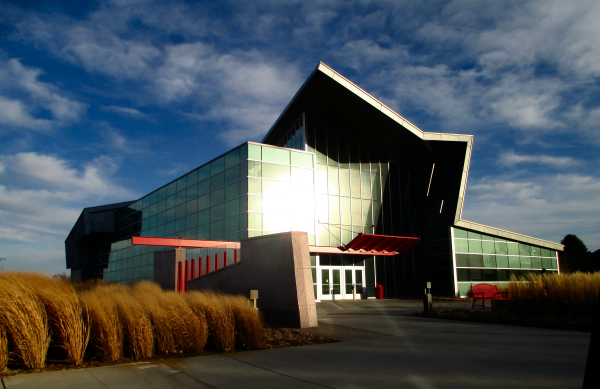 The University of South Dakota's Wellness Center. An southeast facing picture of the west entrance.